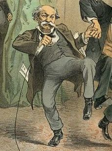 Tennessee Senator Isham G. Harris, as drawn by Joseph Keppler in a cartoon entitled, "Don't they wish they had never taken hold it," which appeared in the February 17, 1886 issue of Puck magazine.